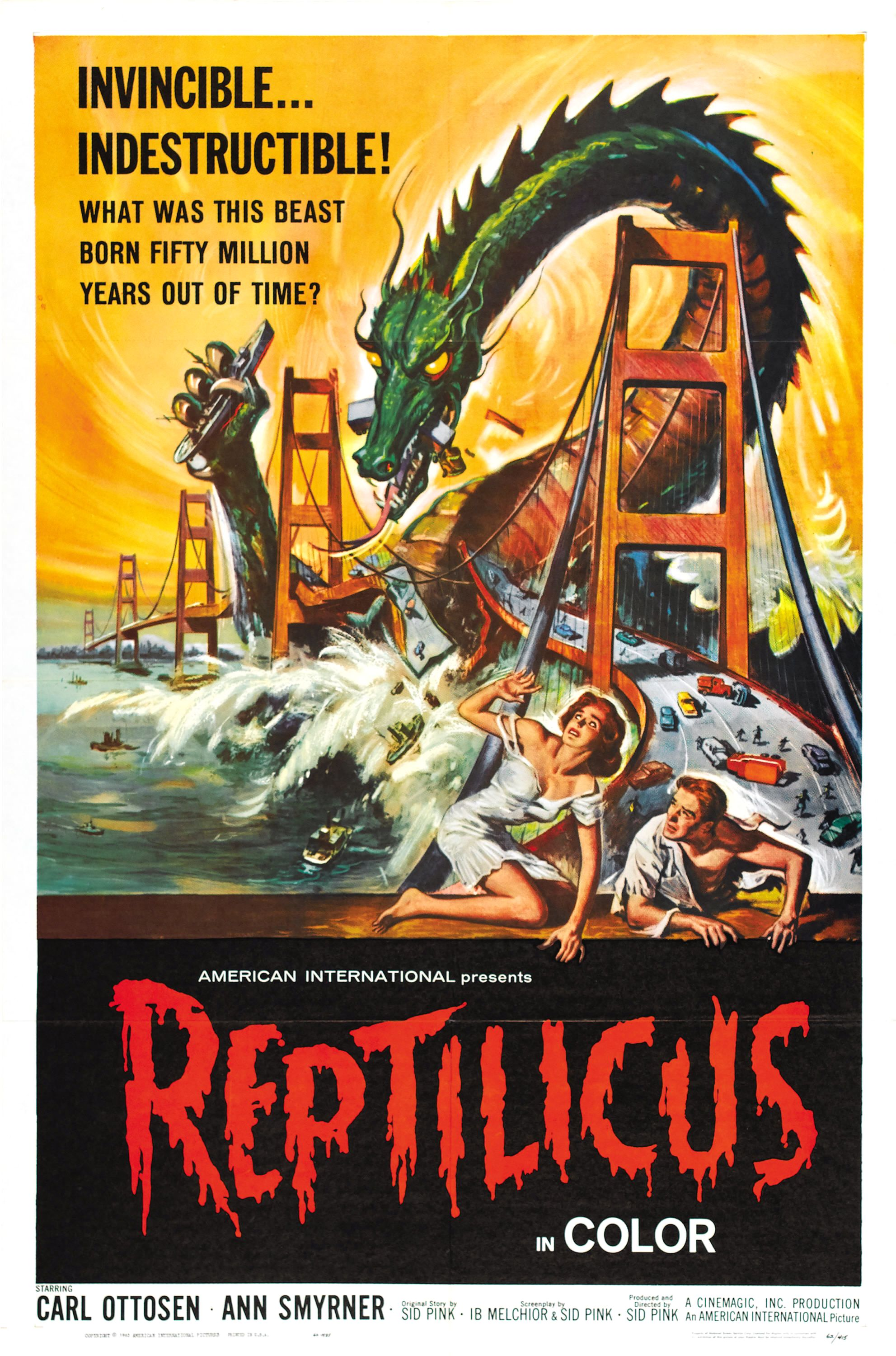 Theatrical poster for the film Reptilicus (1961).